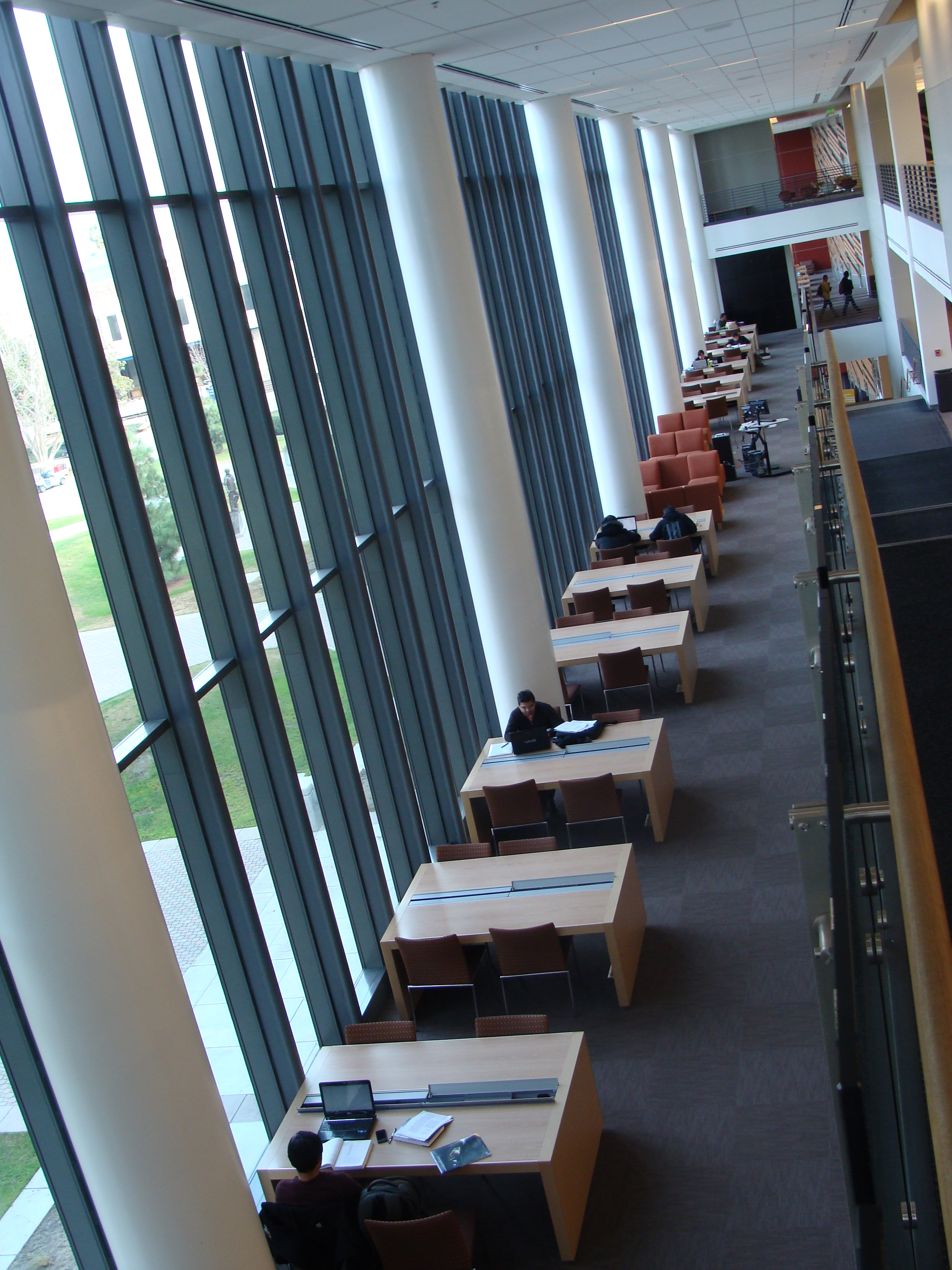 Henry Madden Library, CSU Fresno.